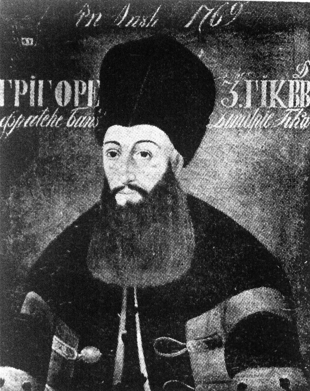 Grigore III Ghica